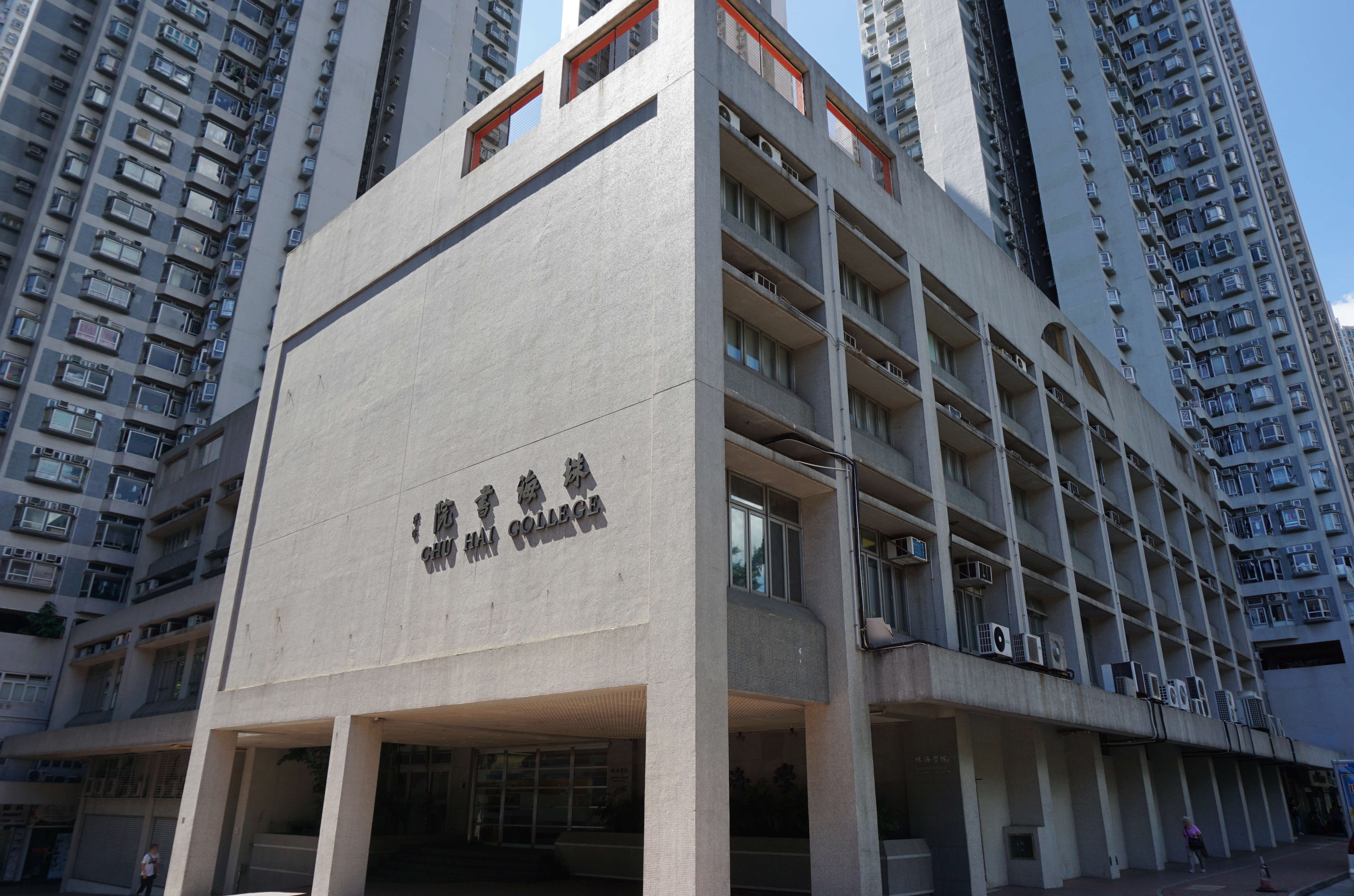 Chu Hai College of Higher Education in Tsuen Wan, Hong Kong.